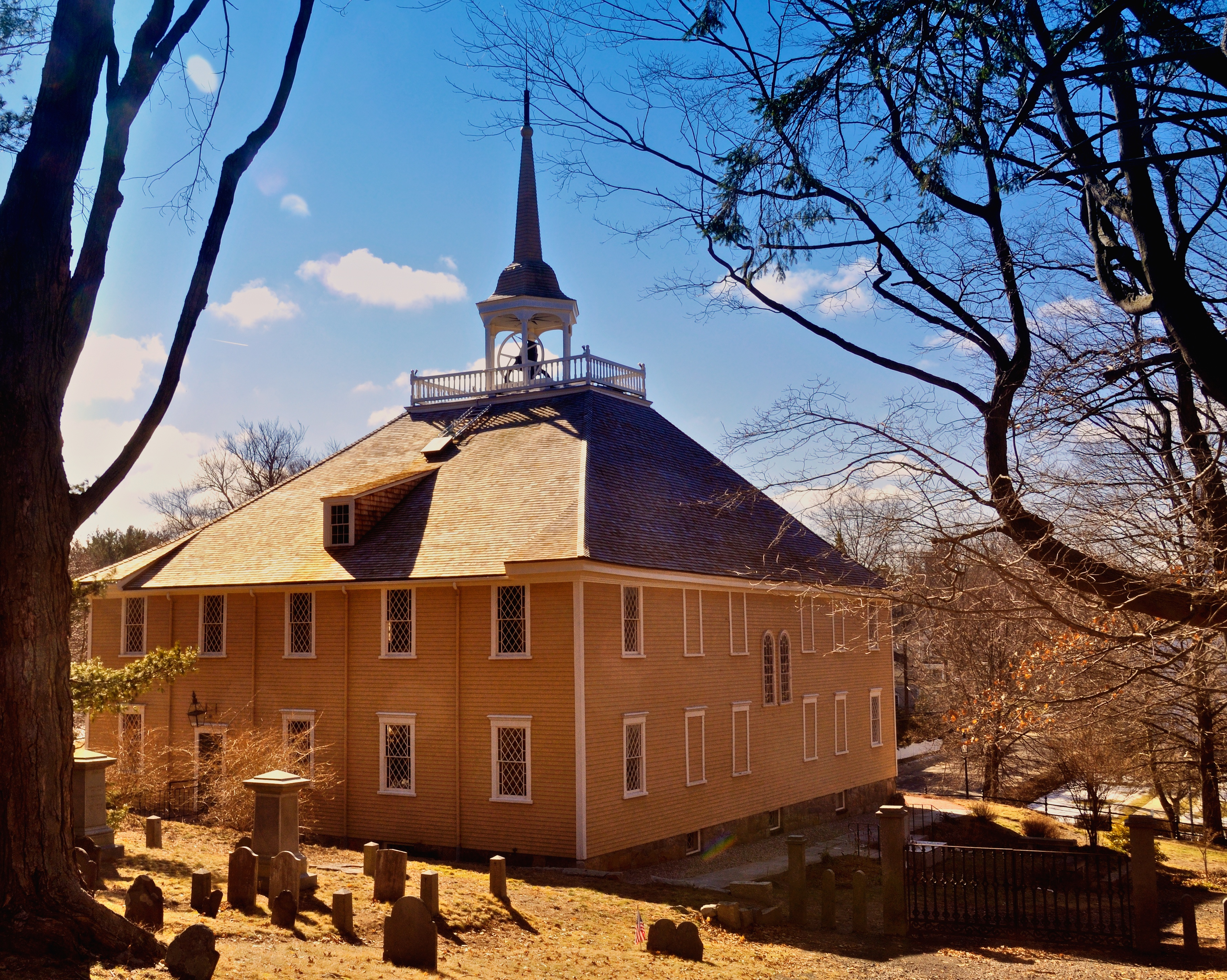 Old Ship Church, Hingham, Massachusetts. View from Old Ship Burying Ground.